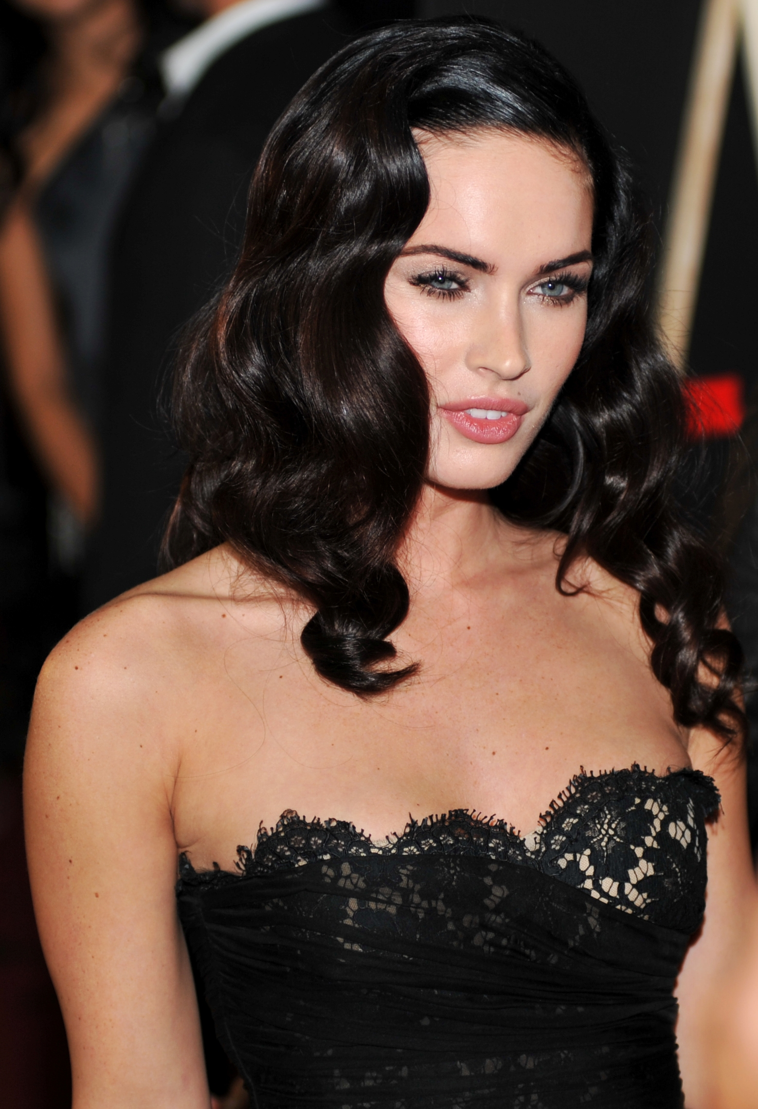 Megan Fox @ Jennifer's Body screening